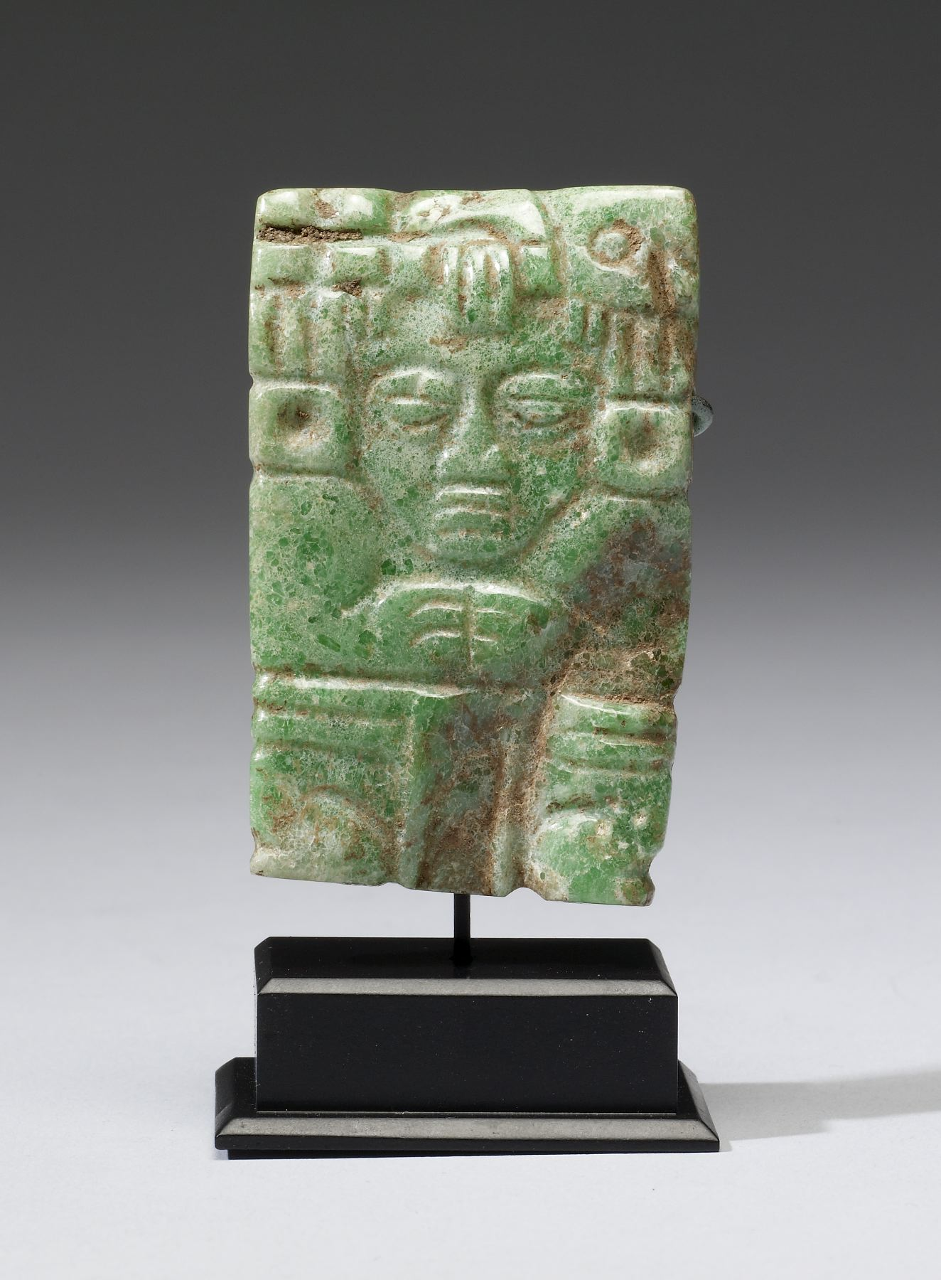 Jadeite is a dense alumina silicate of the pyroxene mineral family. The preferred stone for denoting status and sacredness throughout Mesoamerica, its value was based on its relative scarcity, the polished stone's bright, shiny surface , its translucent colors (ranging from light green to a rich blue-green), and the challenge of carving the stone due to the stone's hardness. In addition to the impressive visual qualities and scarcity, jadeite was symbolically linked to the miracle of the earth's fecundity, the maize god, and the life-giving promise of green plants and blue-green water. Together, these attributes made jadeite the most valuable of all materials to adorn the nobility and the gods. The Maya also fashioned adornments from similar green-colored stones whose visual properties resemble those of jadeite. It is difficult to discern the correct geological identification of these adornments without technical analyses. This pendant exemplifies the aesthetic variety and technical expertise of Classic Maya jadeite carvers. The pendant is carved in the standardized frontal rendering of a noble person wearing the formal head gear of the ruling elite, with unique features that document more than five hundred years of the jadeite carver's art. The flat pendant exemplifies Middle Classic figural pendant styles with the distinctive headdresses and impressive jadeite earflares and bead necklaces worn by the nobility.